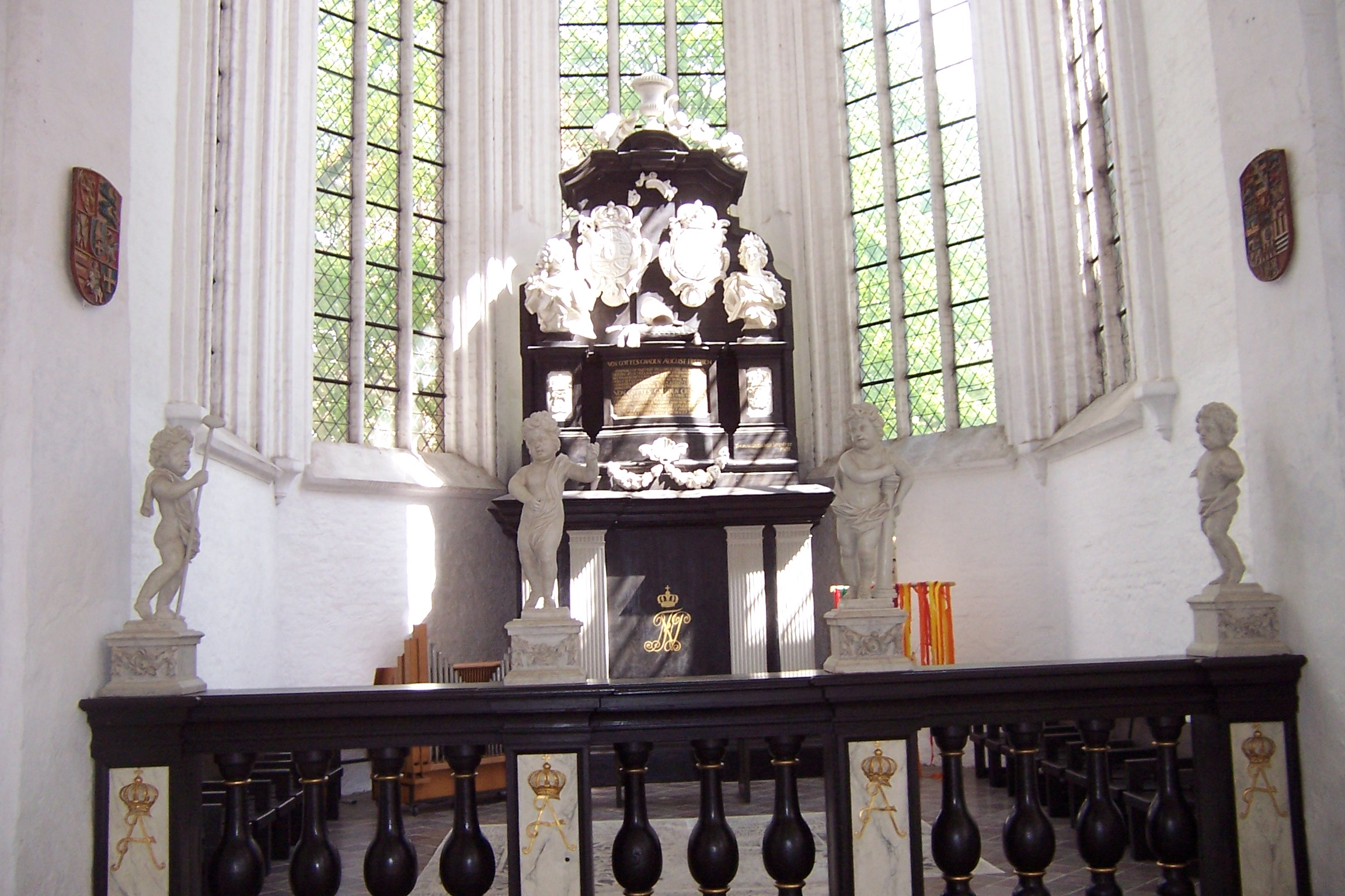 Lübeck Cathedral, Marientidenkapelle with graves and epitaph of prince bishop August Friedrich von Schleswig-Holstein-Gottorf and his wife Christine, epitaph by Thomas Quellinus